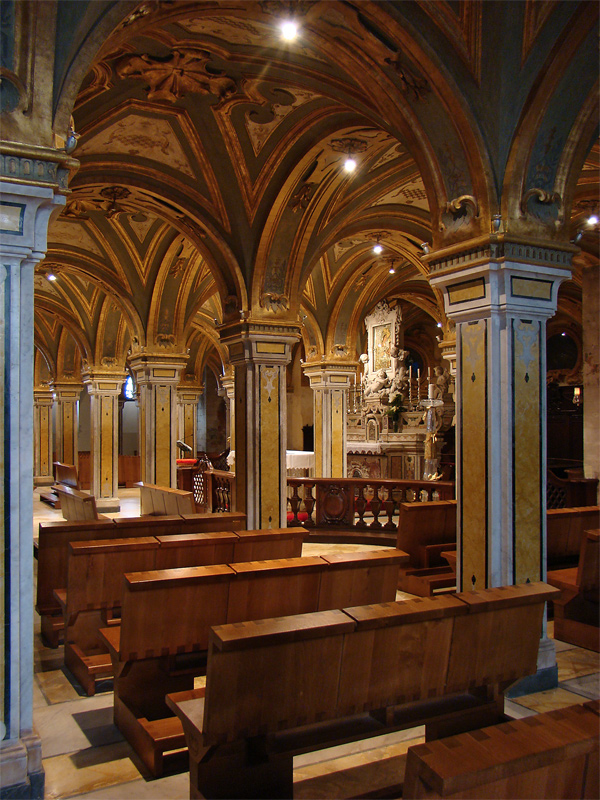 Cathedral of San Sabino, Bari, Apulia, Italy. The crypt.